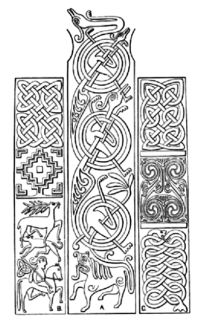 Henry Saxton Crawford: sketch of ornaments from Bealin High Cross